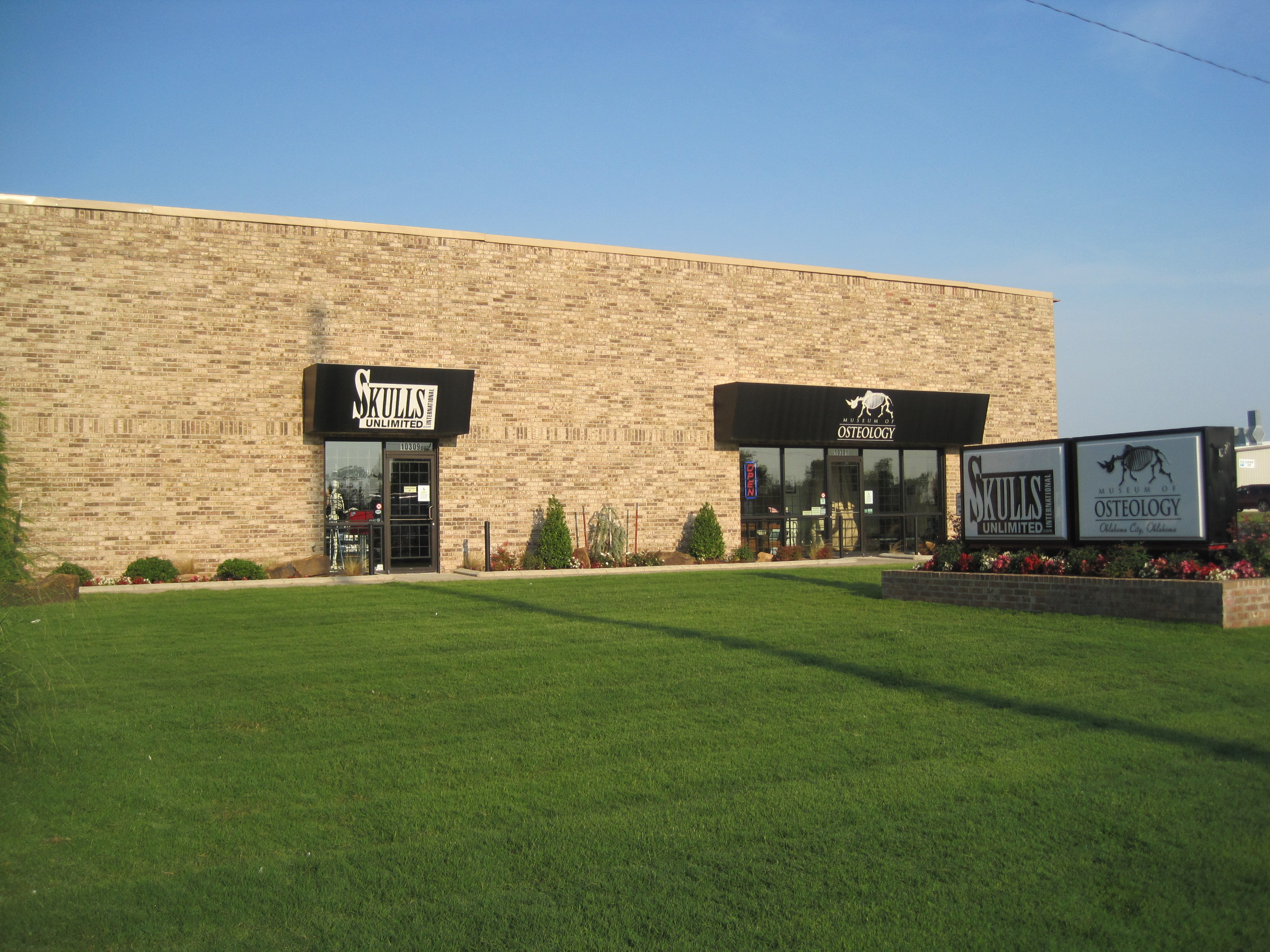 Skulls Unlimited corporate office and the Museum of Osteology, August 2013.